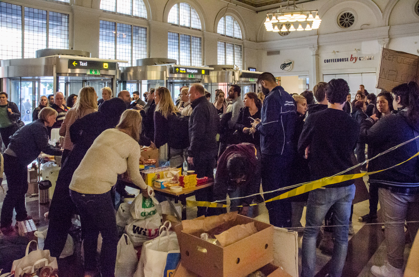 Refugees from Syria arrive at Stockholm Central Station by train through Denmark and Malmo in September 2015.